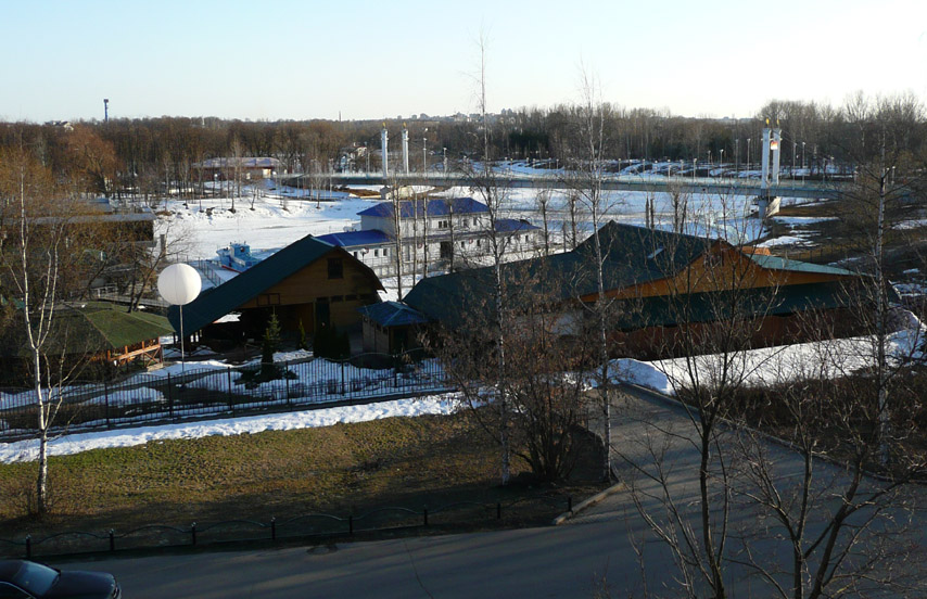 View from the Kotorosl Embankment toward Damansky Island